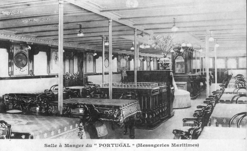 Portugal ship restaurant.